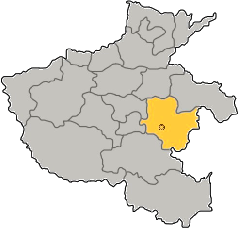 The prefecture-level city of Zhoukou is highlighted on this map of Henan province, People's Republic of China.